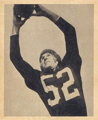 American football player Harry Gilmer on a 1948 Bowman card.